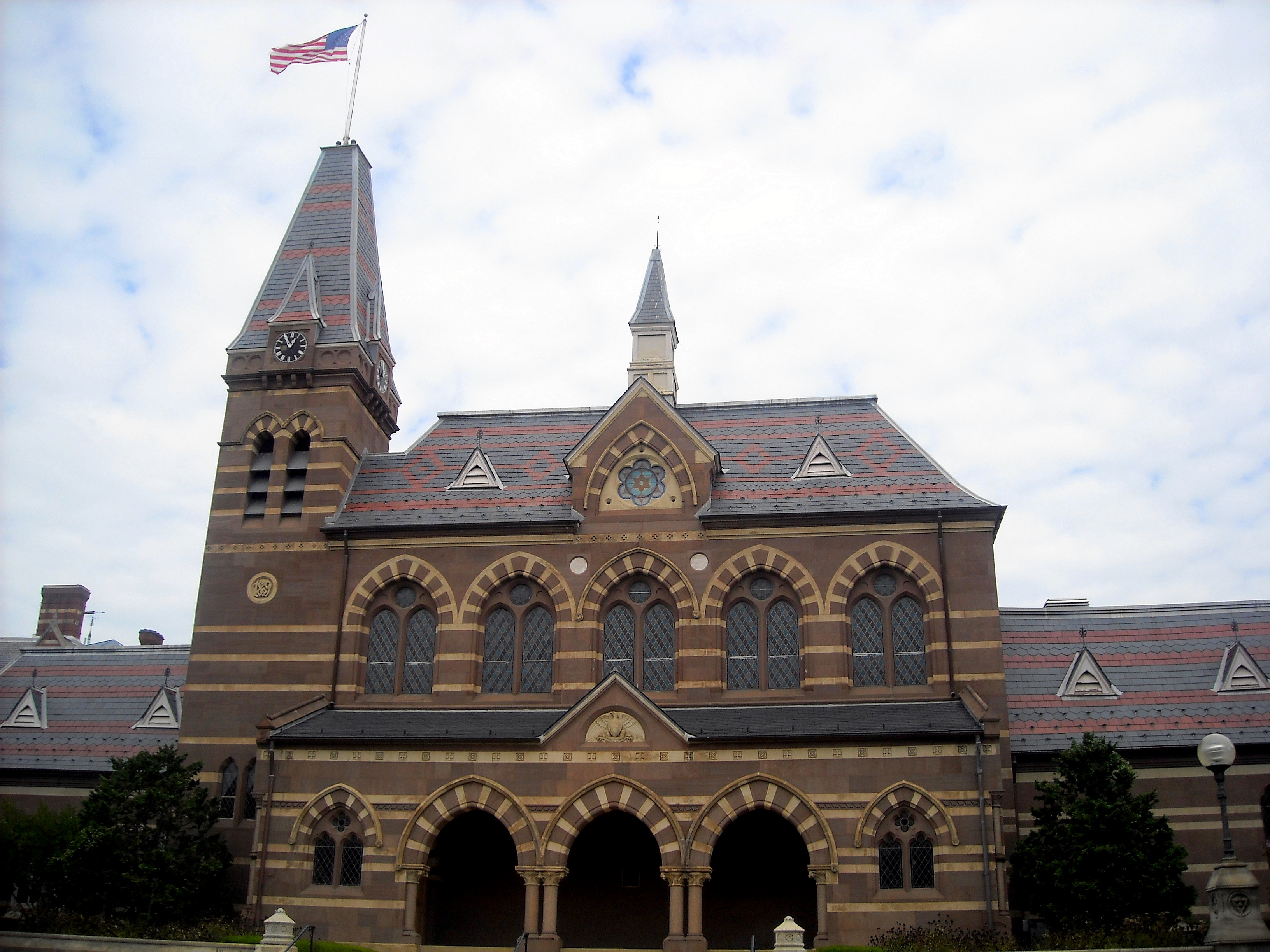 Chapel Hall (also known as Main Central Building) located on the campus of Gallaudet University in Washington, D.C. The Victorian Gothic building was designed by Frederick C. Withers (Vaux, Withers, & Co.) in 1870. It's considered one of the finest examples of post-Civil War collegiate architecture and is a National Historic Landmark.